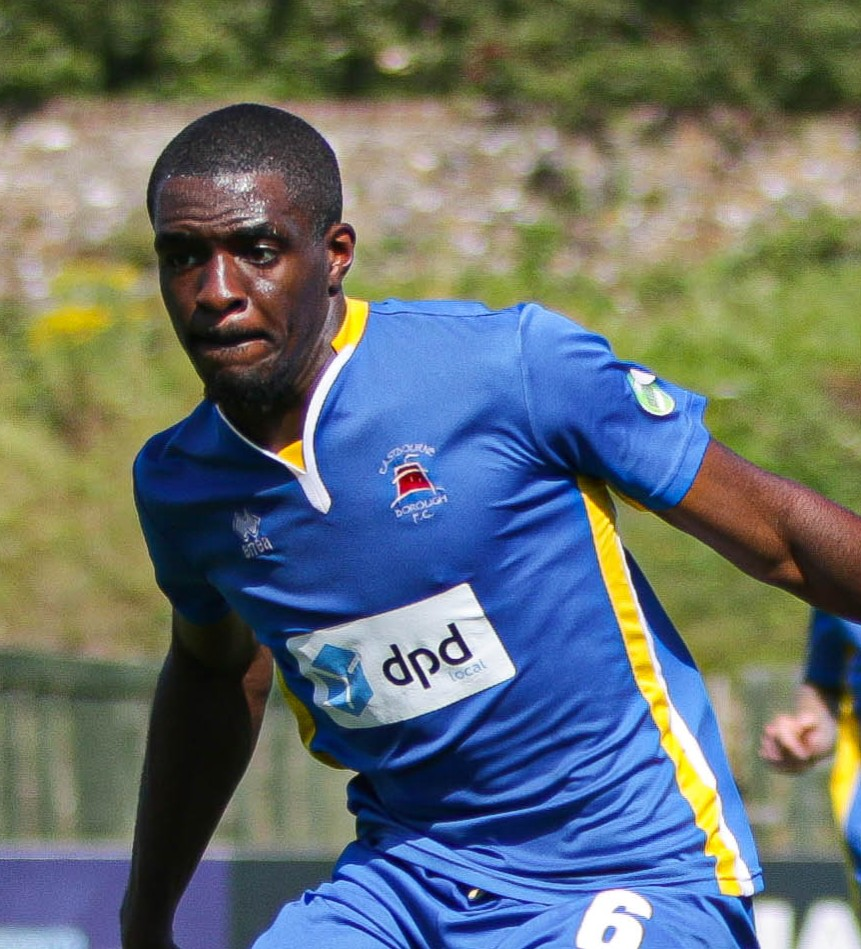 Emmanuel Adebowale playing for Eastbourne Borough in a pre-season friendly against Lewes in July 2019